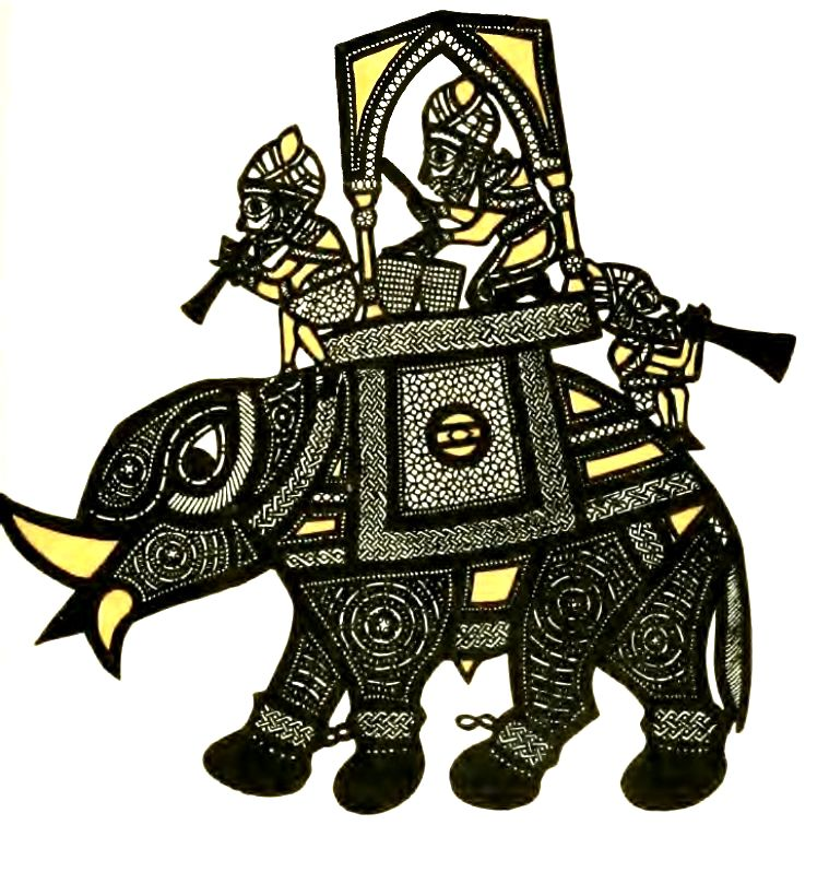 Elephant, shadow puppet, Egypt, collected by Paul Kahle 1909